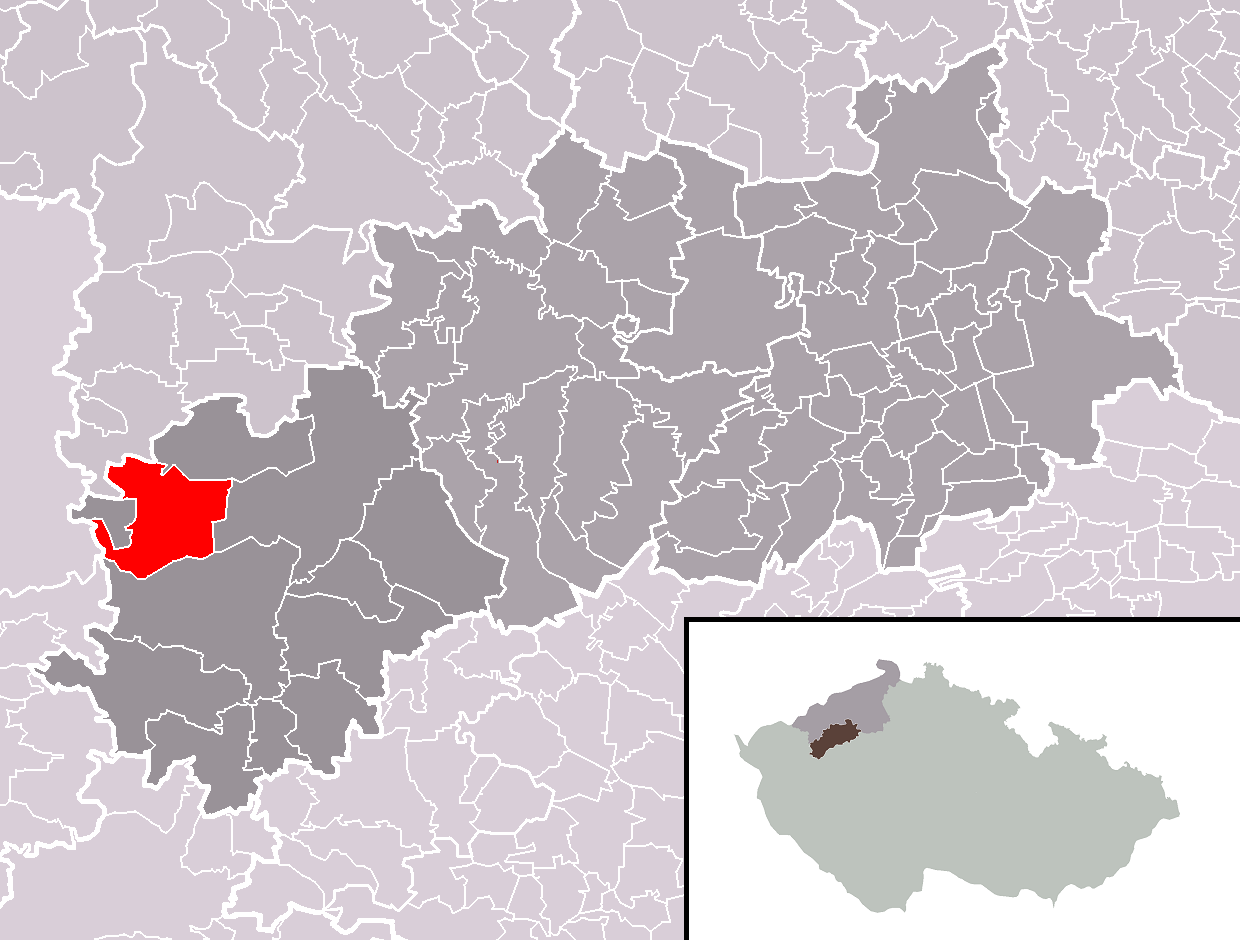 Location of Nepomyšl market town within Louny District and administrative area of Podbořany as a Municipality with Extended Competence.